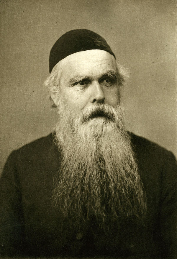 Source: Photograph by Scott and Sons, Carlisle in Rawnsley, H.D., Henry Whitehead, 1825-1896: A Memorial Sketch, James MacLehose and Sons, Glasgow, 1898